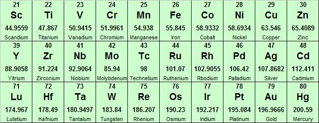 The section of the periodic table on Transition Metals